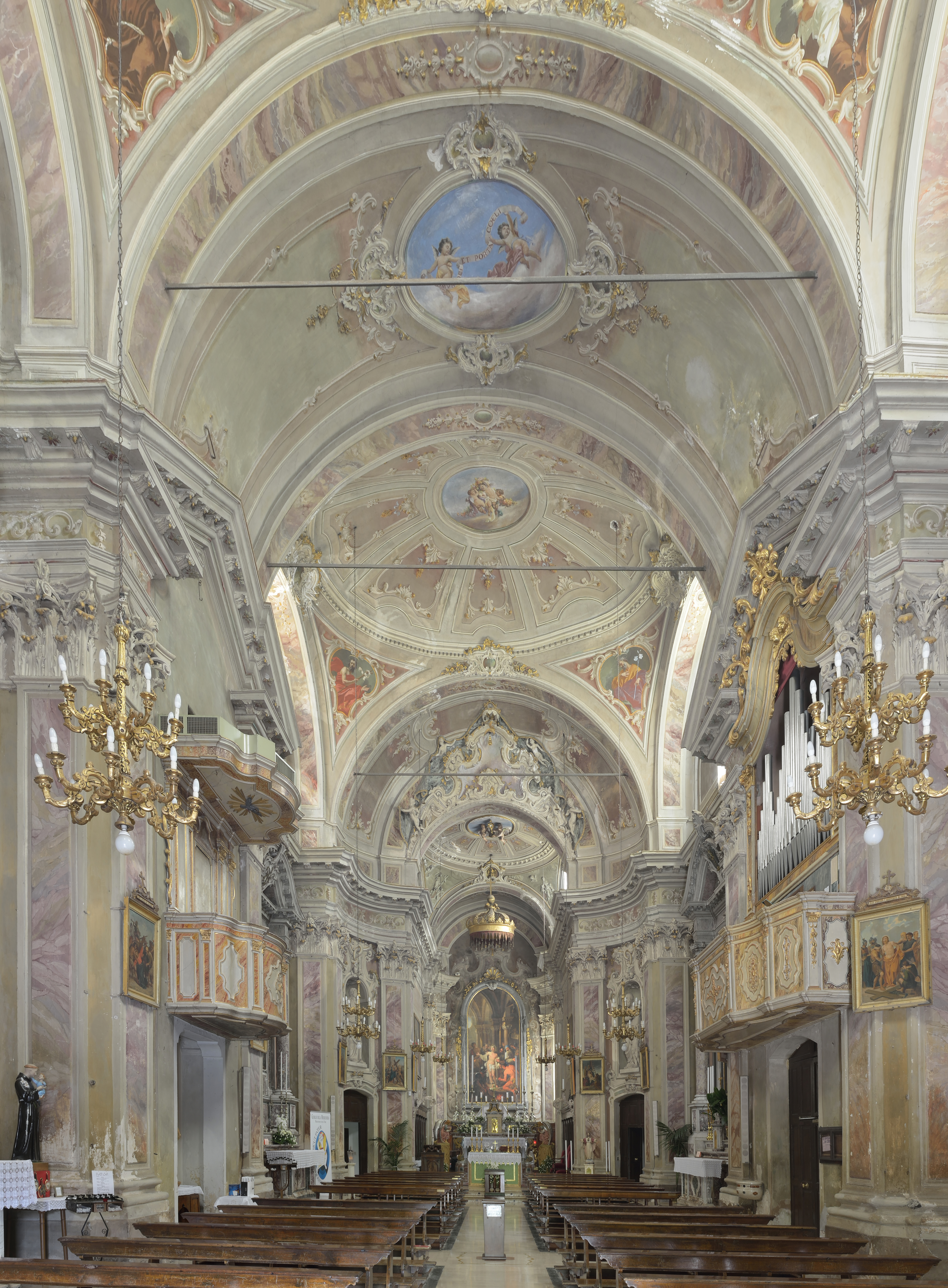 Parish church of Saint Lawrence in Carzago Riviera in Italy.